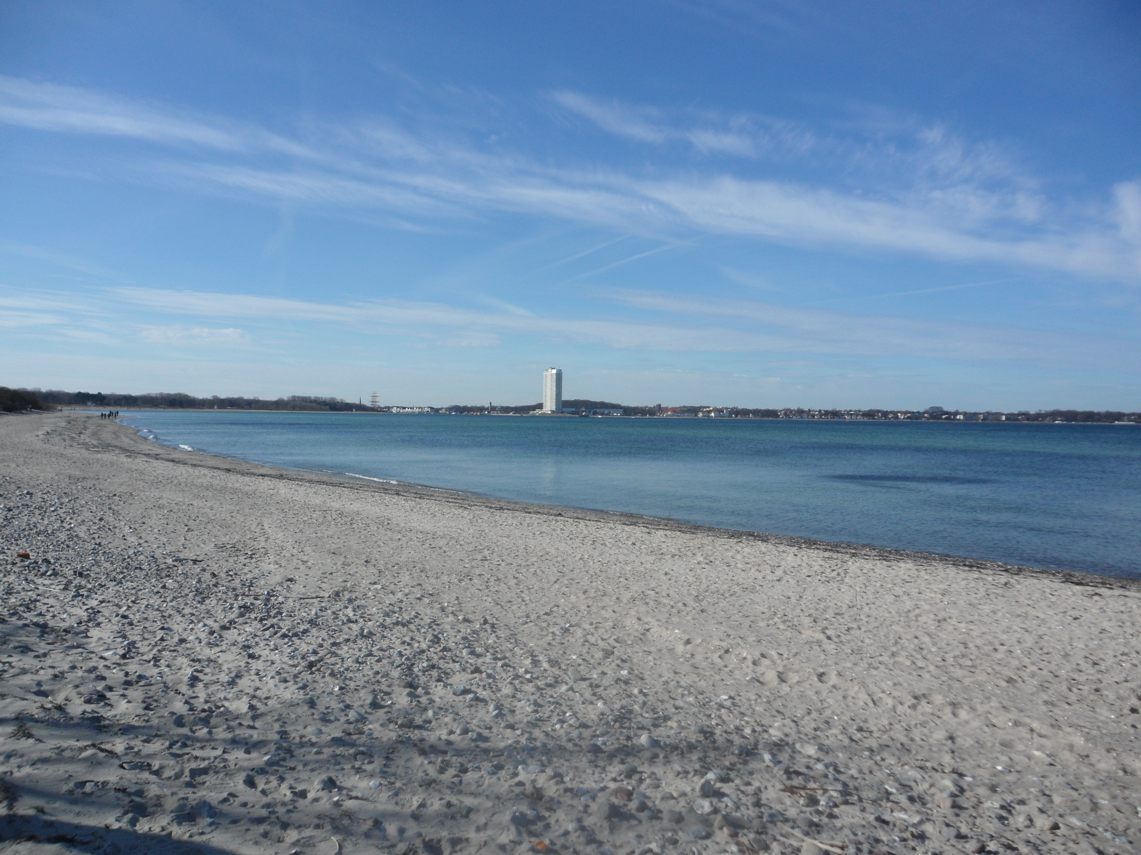 Beach, view to Travemünde from the nature reserve Küstenlandschaft between Priwall and Barendorf plus Harkenbäkniederung close to Priwall. In the background (from left to right): Passat (ship, 1911), Old Lighthouse, Maritim Hotel Lübeck-Travemünde, Beach Promenade